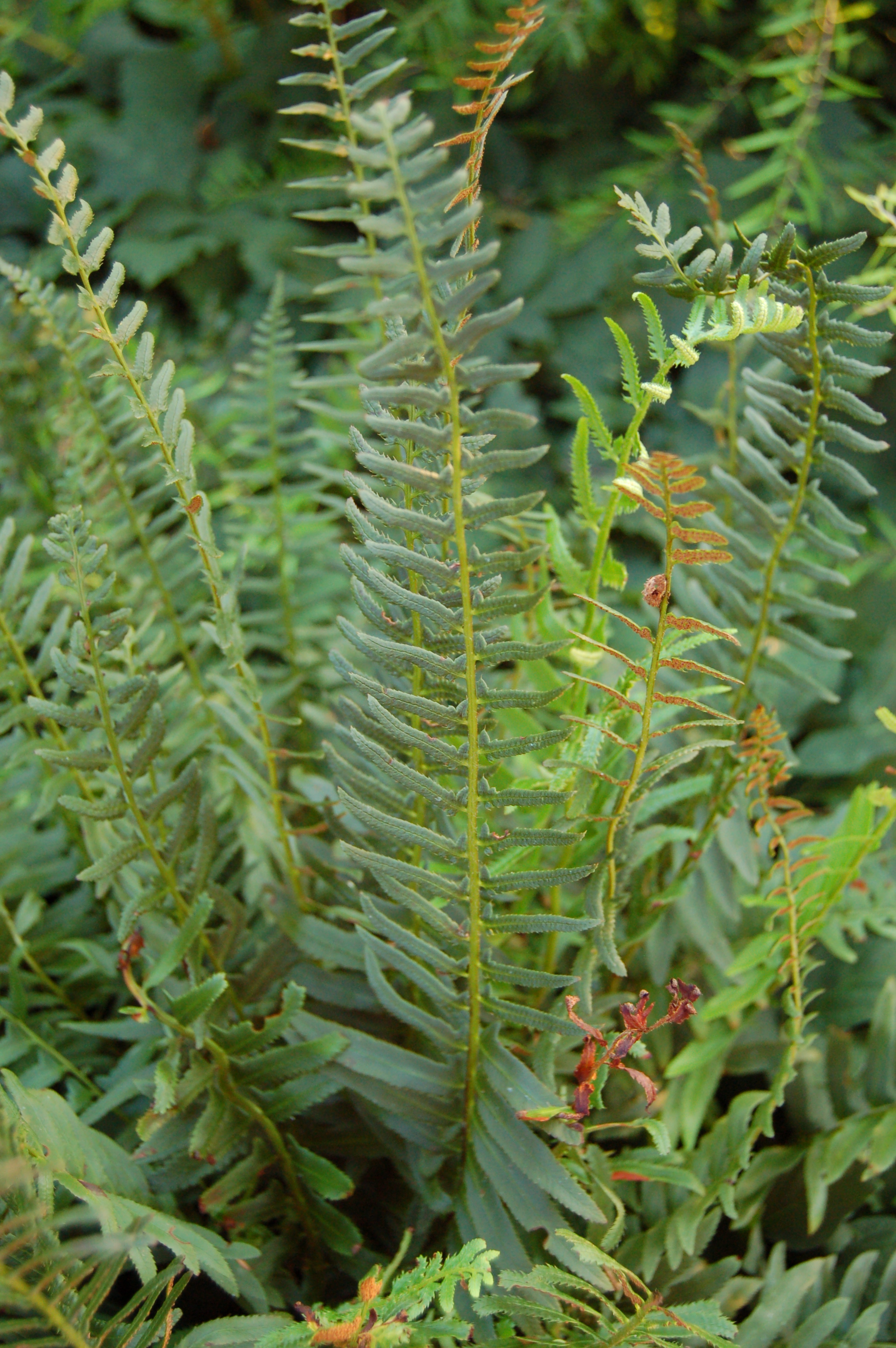 Photograph of the Christmas Fern (Polystichum acrostichoides). Photo taken at the Tyler Arboretum where it was identified.